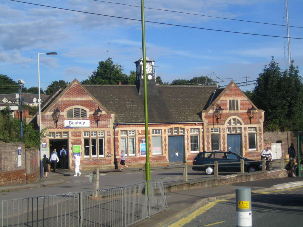 Bushey railway station. Taken by myself 09 August 2005 using Canon Ixus 40 camera